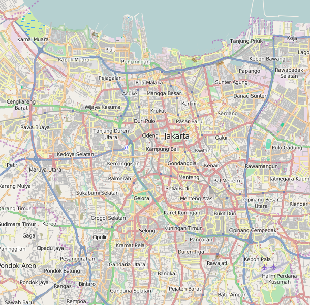 Map of Jakarta, Indonesia Geographic limits of the map: N: -6.0832° S: -6.2904° W: 106.7063° E: 106.9178°